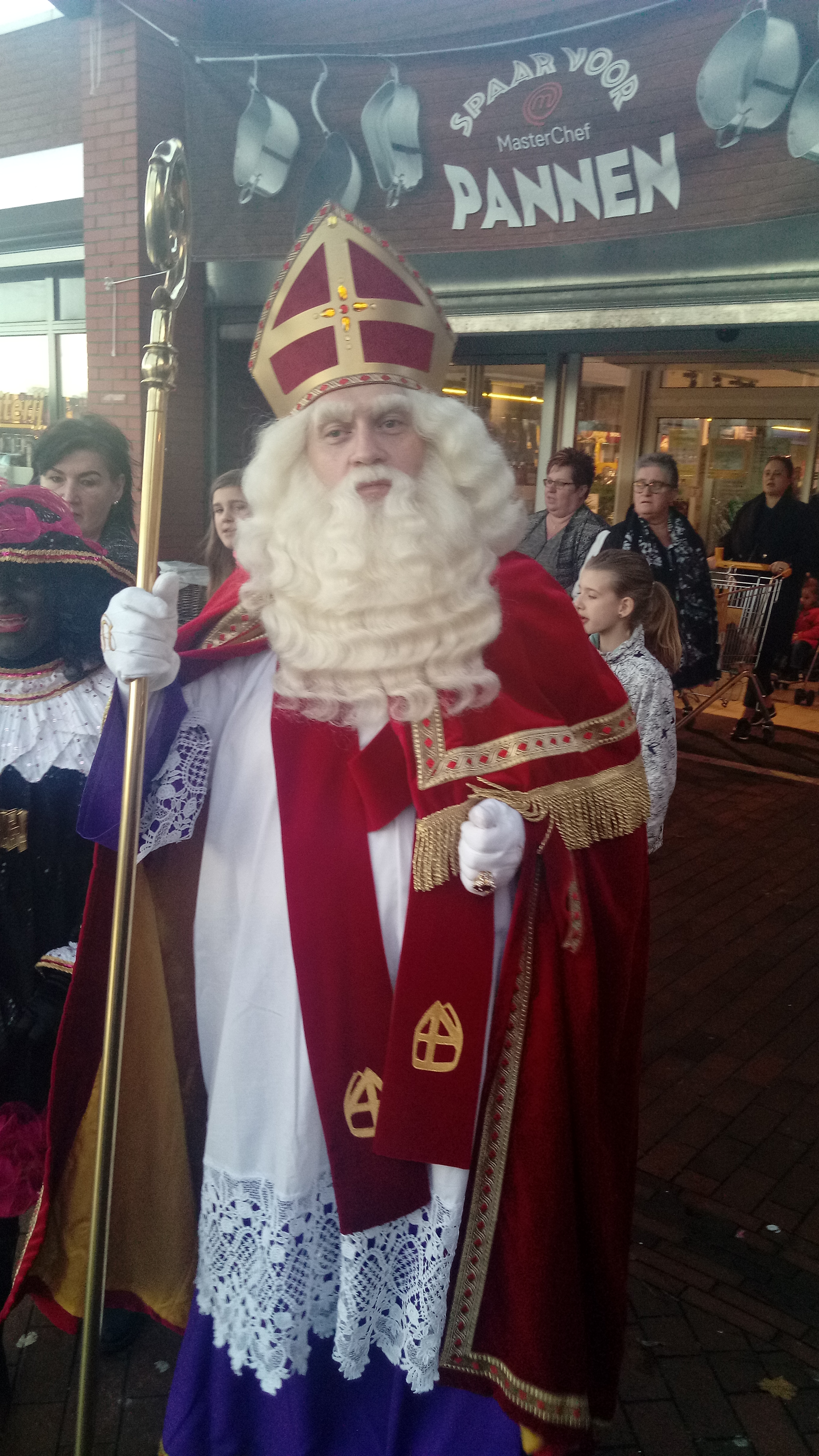 Sinterklaas outside of the De Helling shopping centre in the Groninger village of Oude Pekela, Veenkoloniën.